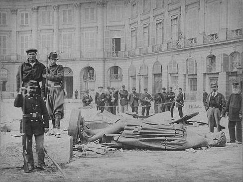 Place Vendâme, a photograph by Bruno Braquehais (1823–1875) showing the toppled statue of Napoleon at the Place Vendôme following the destruction of the Colonne Vendôme on May 16, 1871 by the Paris Commune.